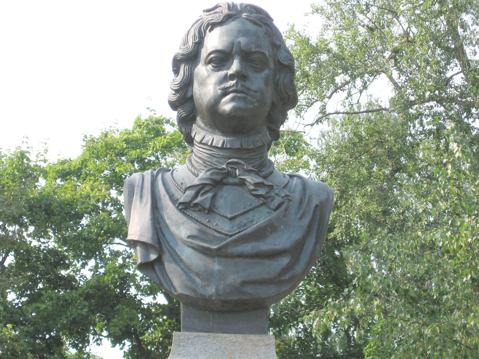 Monument to Peter the Great, founder of Sestroretsk